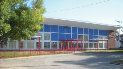 This is an image of the East St. Louis Family Development Center